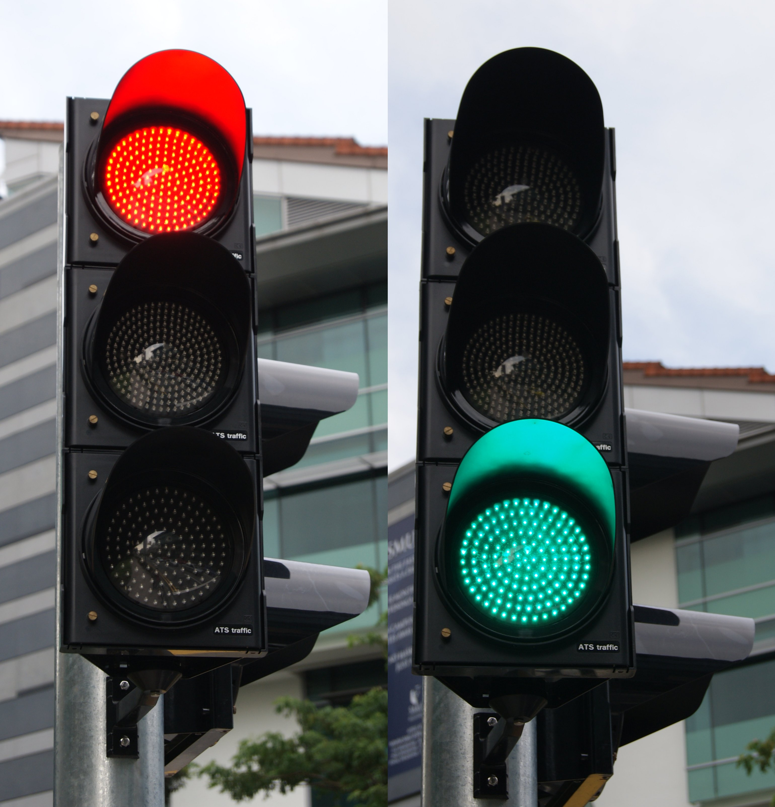 Red and green traffic signals along Stamford Road in front of the School of Accountancy and School of Law Building, Singapore Management University.